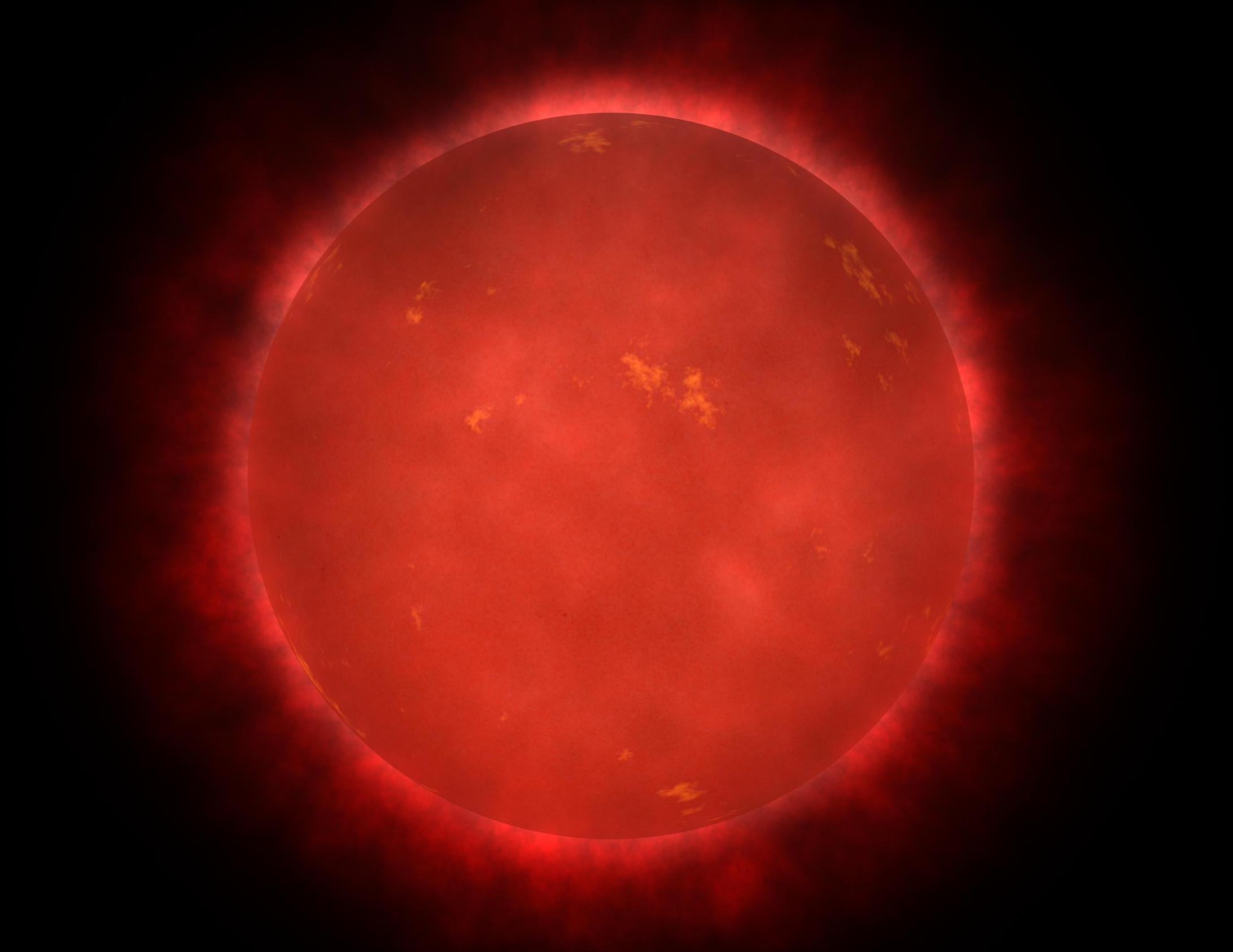 Artist's conception of star SO25300.5+165258 which is a red dwarf about 7.8 light years from the sun (the newest data is 12.578 ly)